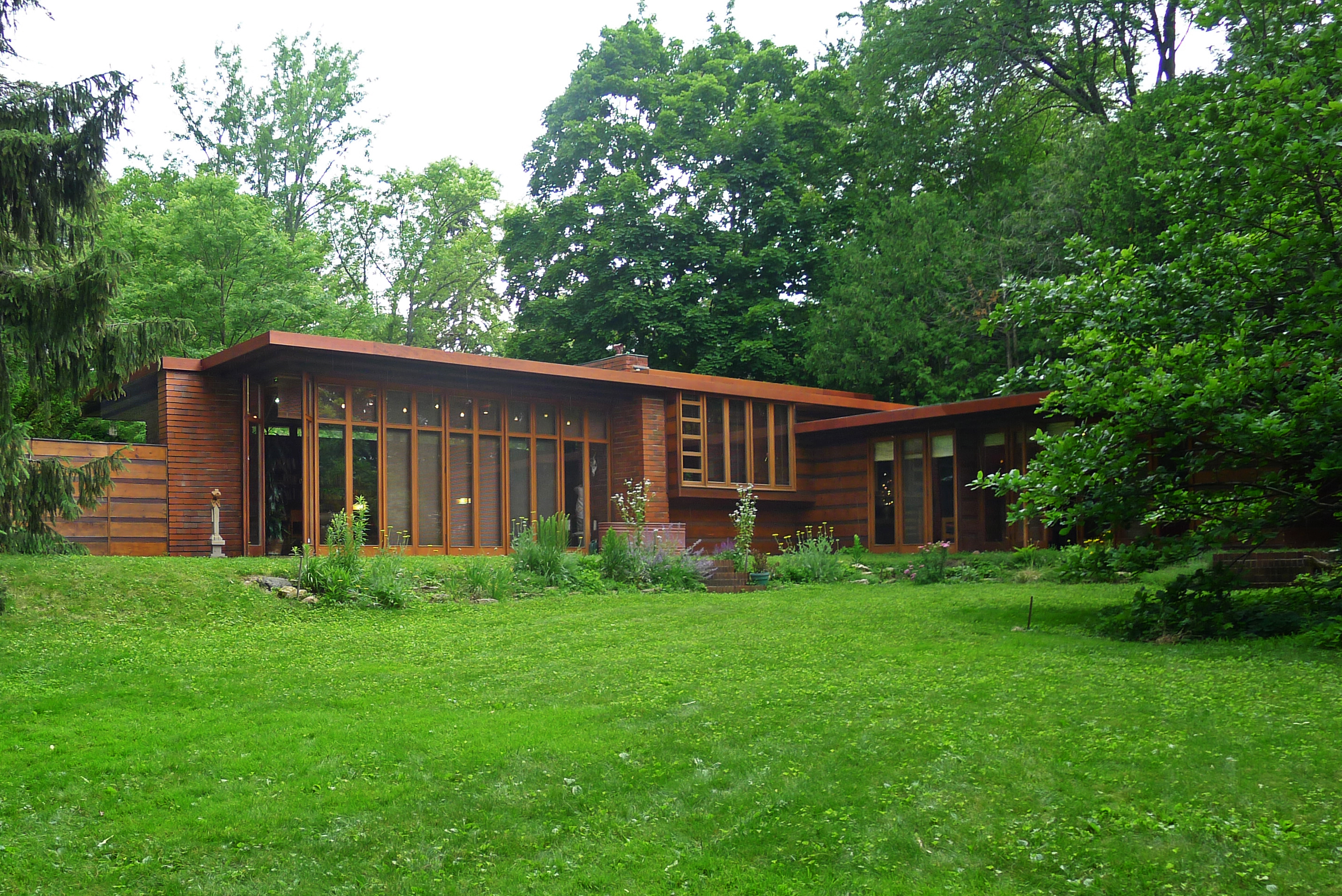 Exterior of the Herbert and Katherine Jacobs First House, commonly referred to as Jacobs I. This is a single family home located at 441 Toepfer Avenue in Madison, Wisconsin. Designed by noted American architect Frank Lloyd Wright, it was constructed in 1937 and is generally considered to be the first Usonian home.